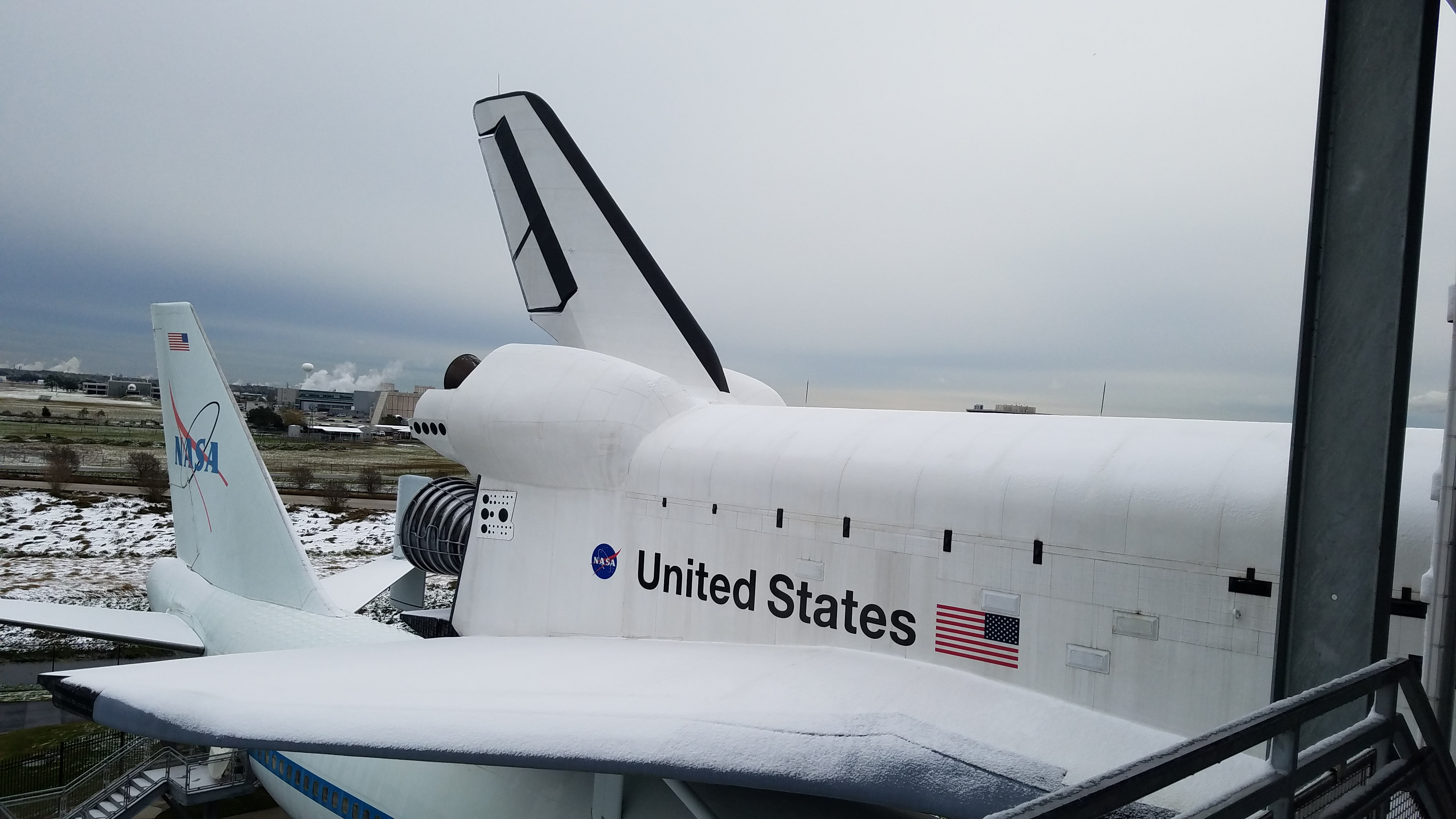 Taken on a rare snow day in Houston, Texas at Space Center Houston